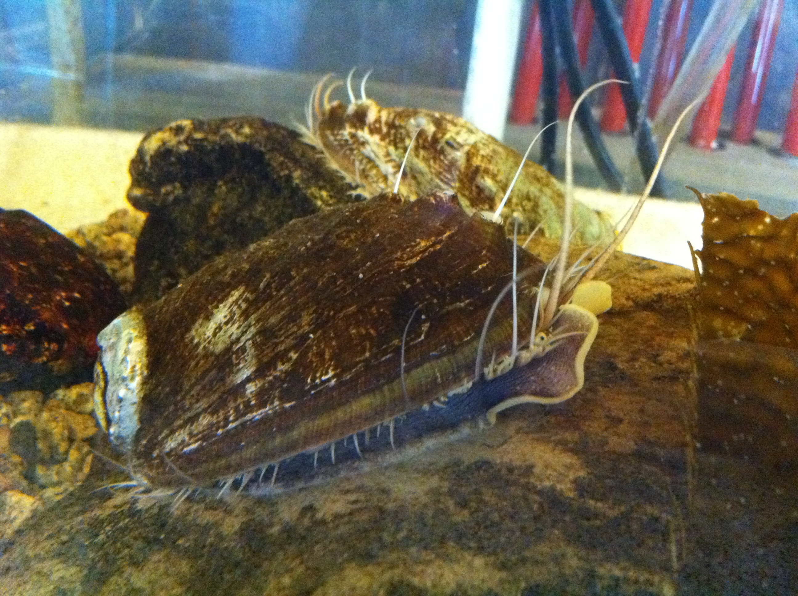 Living abalone showing epipodium and tentacles, in display tank at Ty Warner Sea Center on Stearns Wharf, Santa Barbara, California.